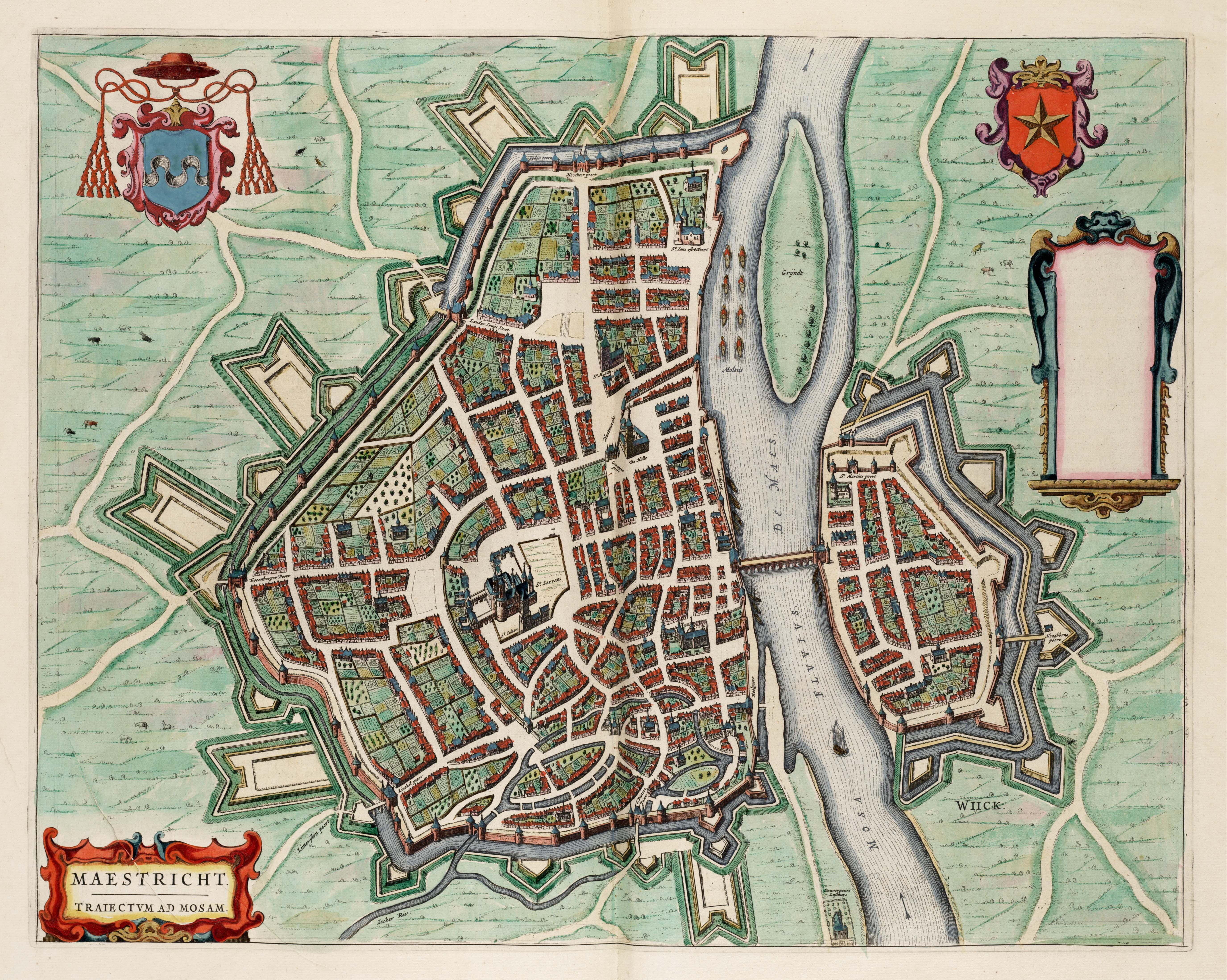 Map of Maastricht in the Netherlands by Joan Blaeu, 1649